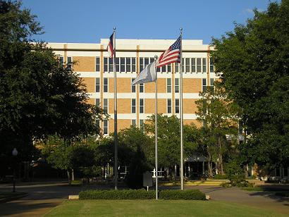 UTA Library